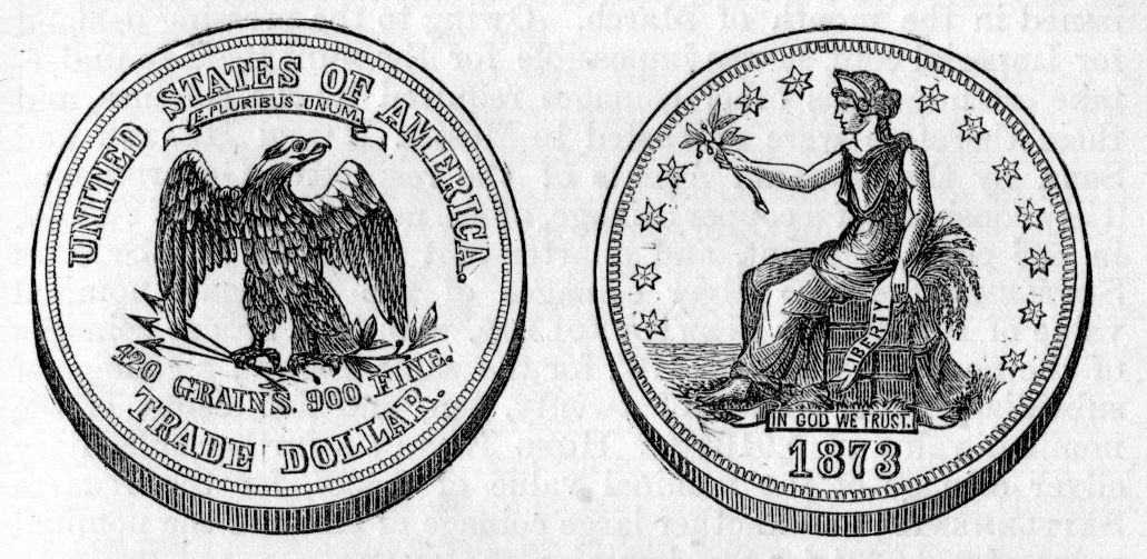 A United States silver trade dollar of 1873. Both sides shown